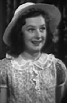 A screen shot of Barefoot Boy, a film which is in the public domain.